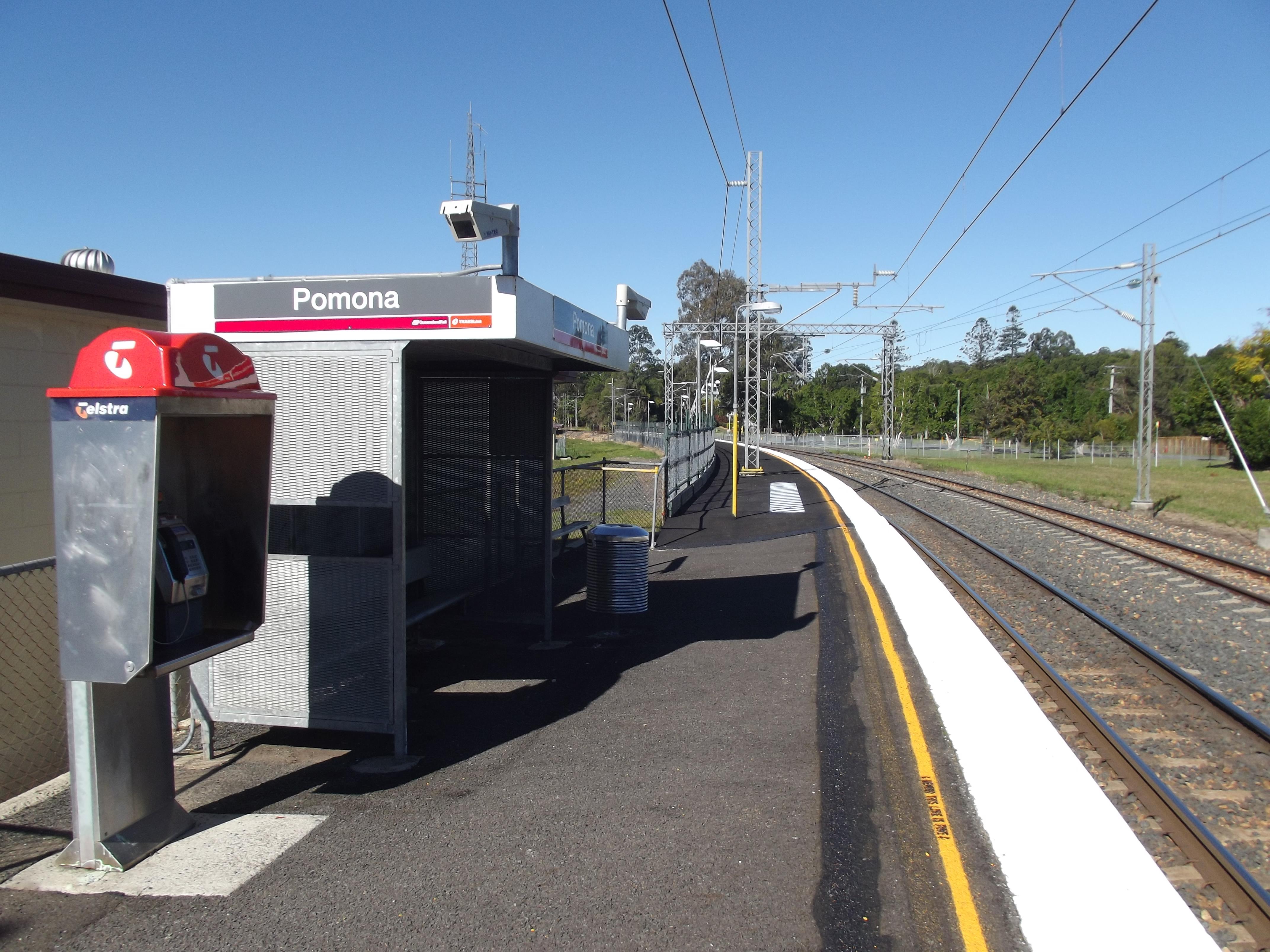 A photo of the Pomona railway station, operated by TransLink, located in Sunshine Coast, Australia.